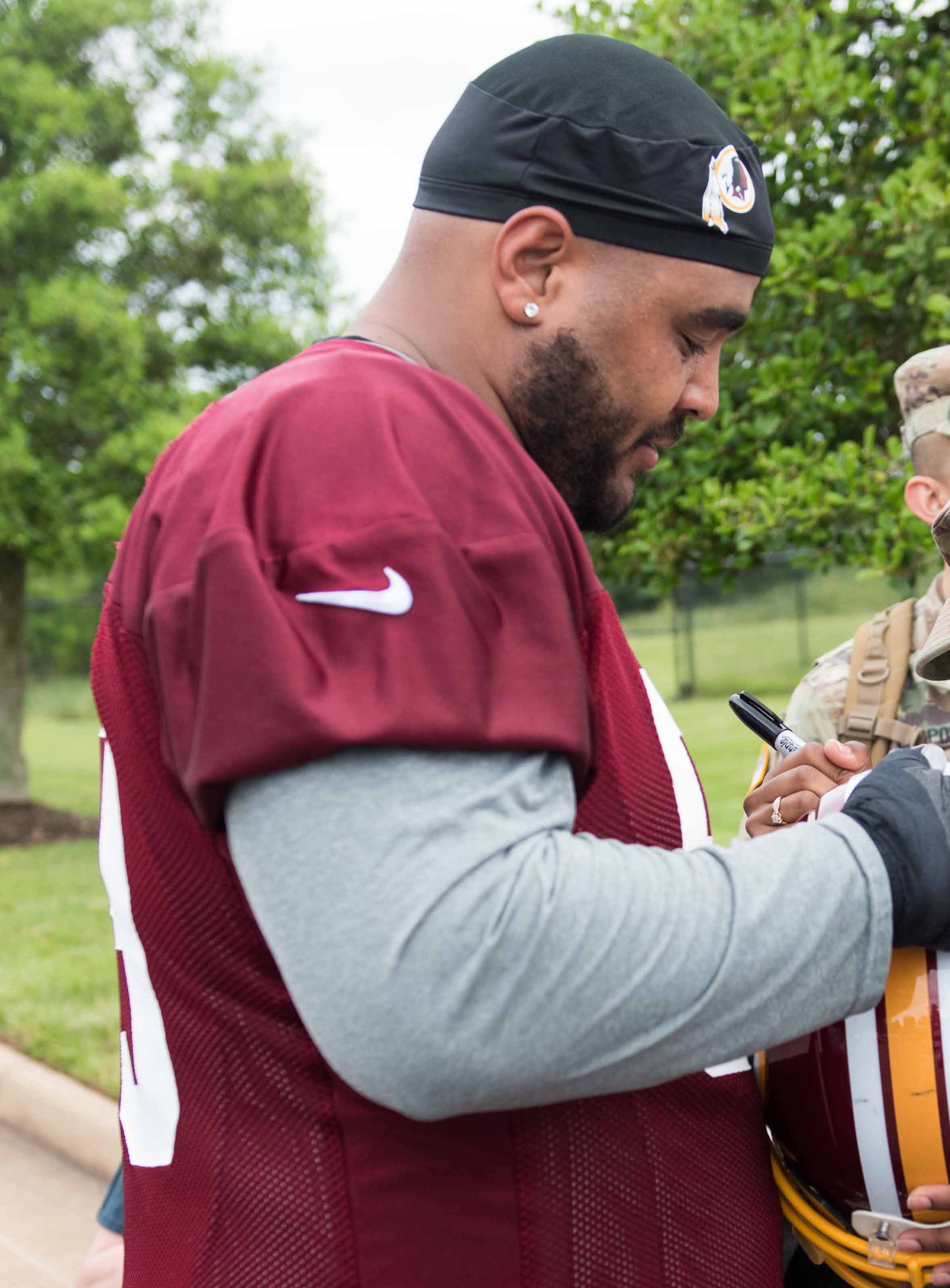 Washington Redskins defensive end, A.J. Francis, signing autographs for the Washington Redskins Salute to Service Day at the Inova Sports Performance Center at Redskins Park on May 24, 2017.